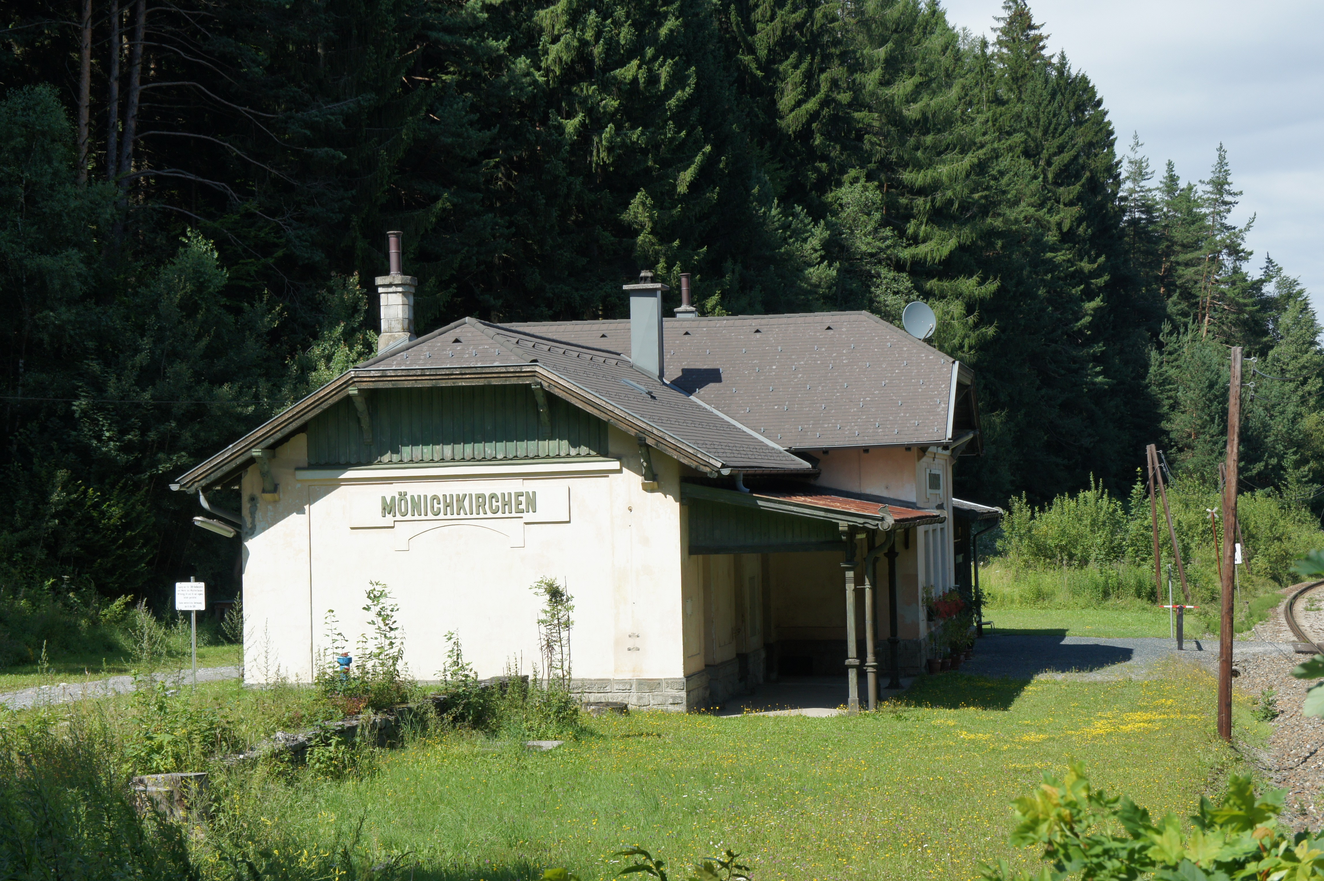 Reception building Mönichkirchen, Aspangberg-St. Peter, Austria